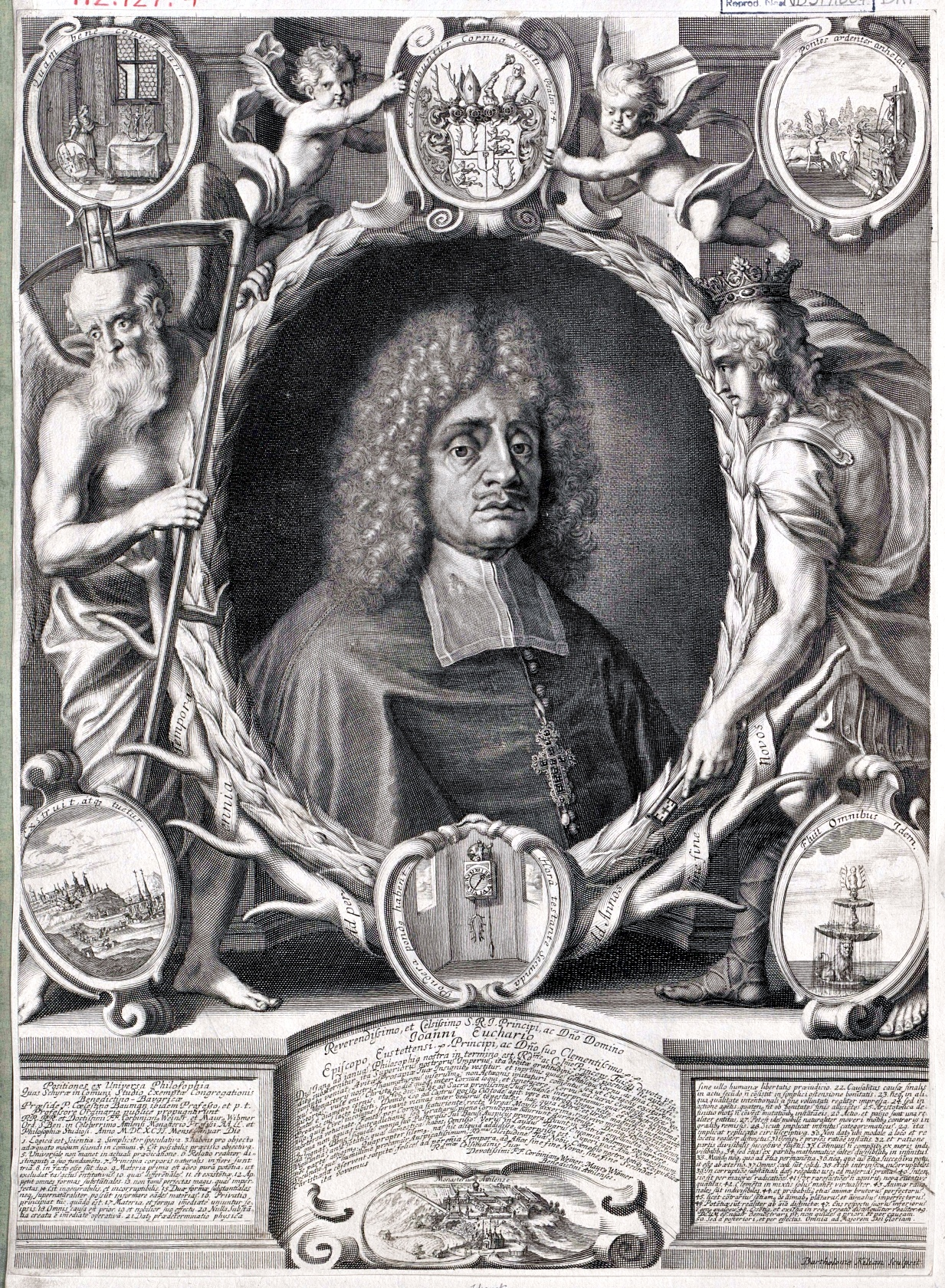 Johann Euchar Schenk von Castell (1625-1697), Fürstbischof von Eichstätt